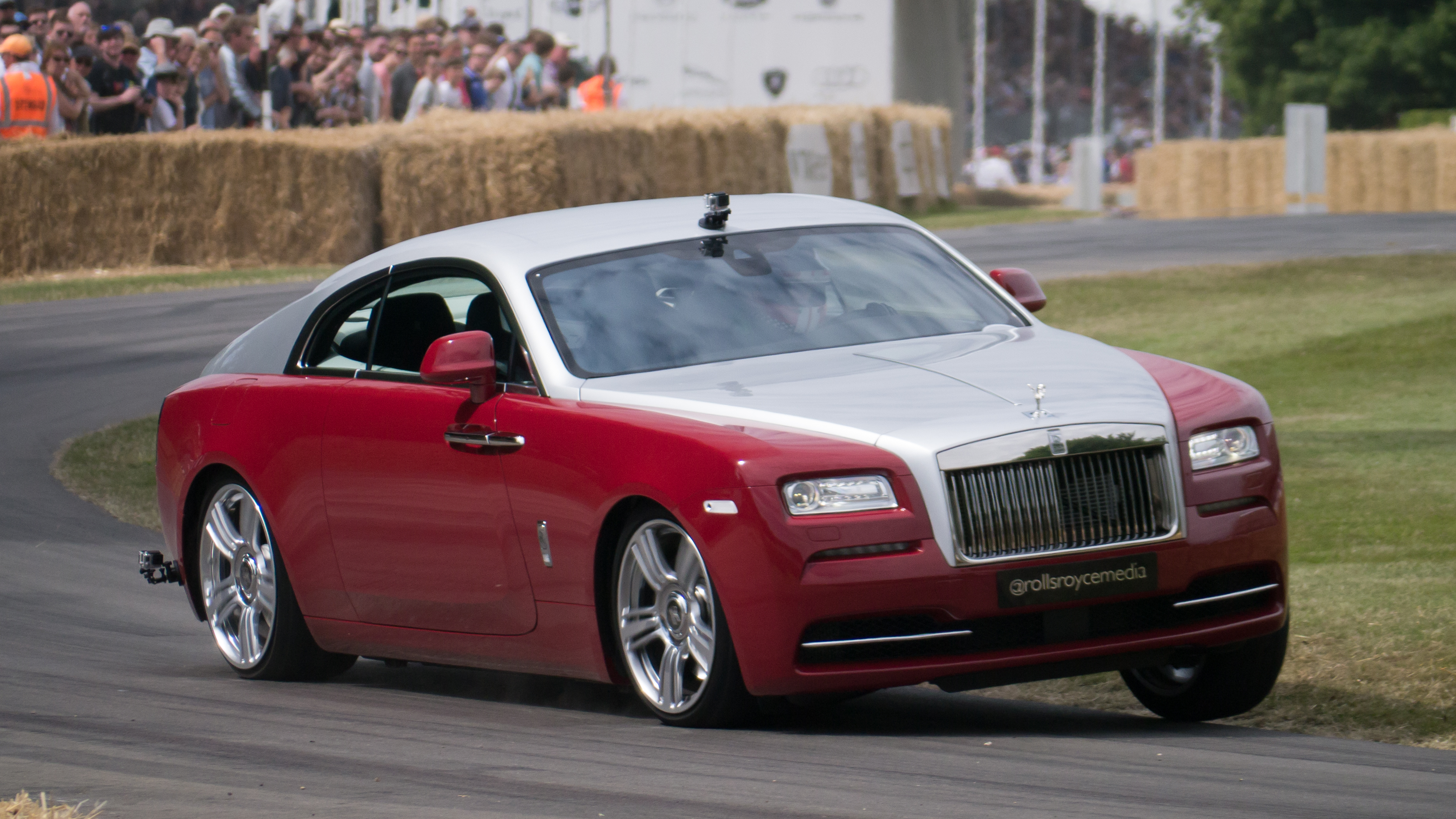 2015 Rolls-Royce Wraith